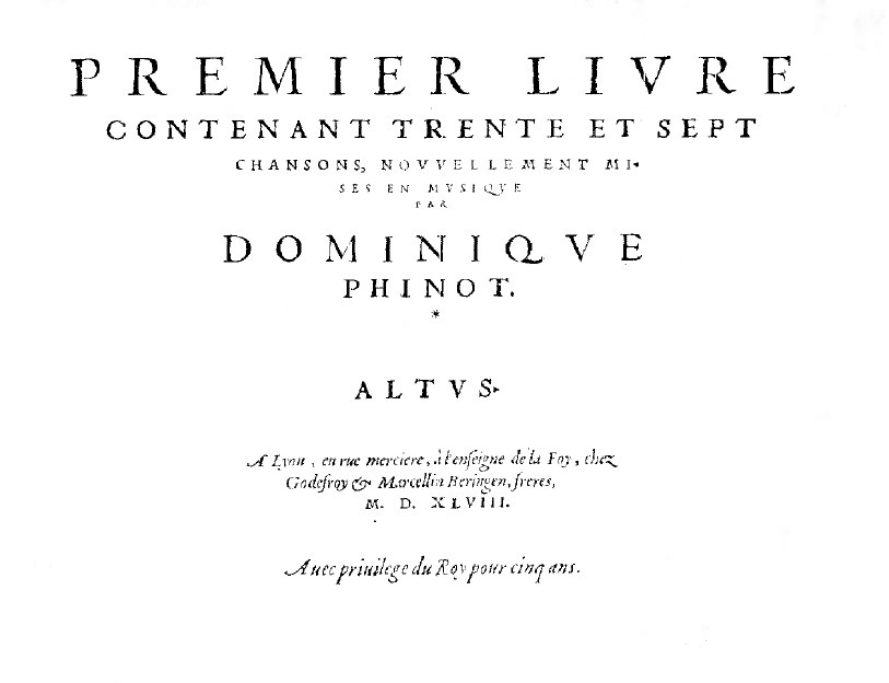 title page of Dominique Phinot's Premier livre contenant 37 chansons... (Lyons, 1548).